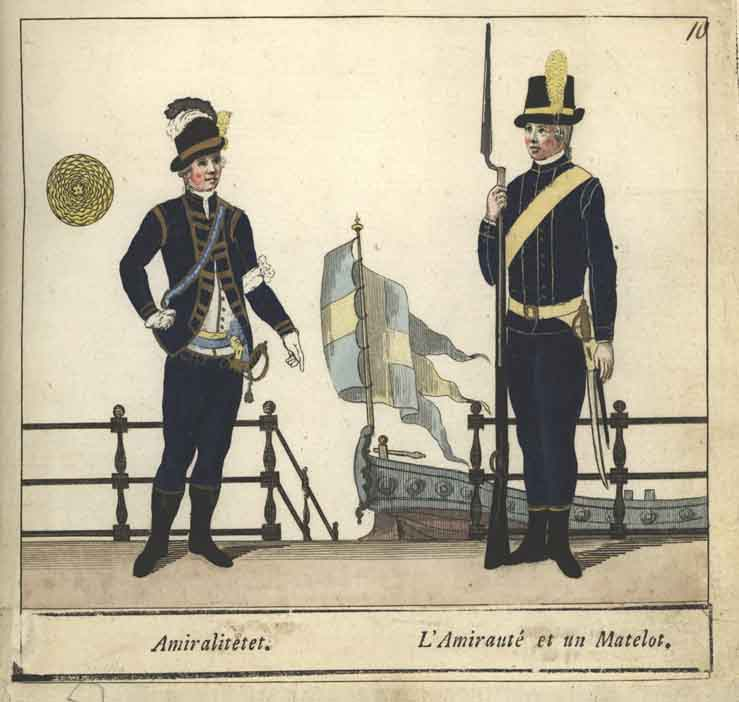 Royal Swedish Navy uniform model 1779